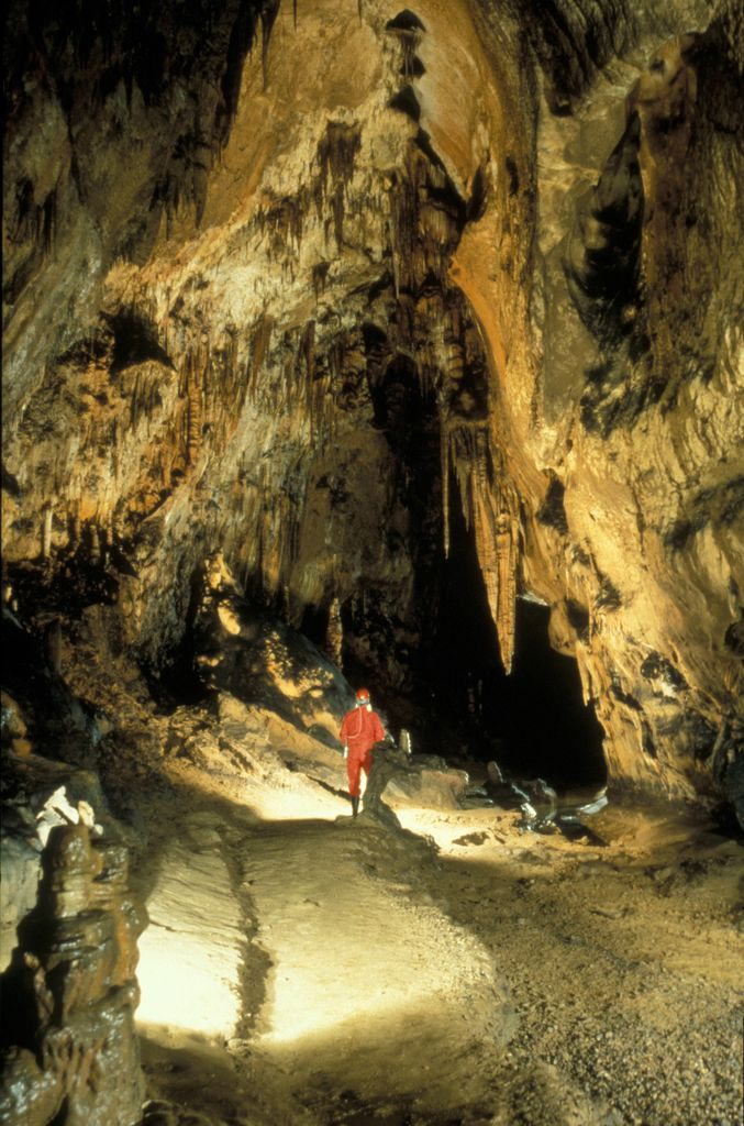 The Bed of the Styx Creek in Baradla Cave